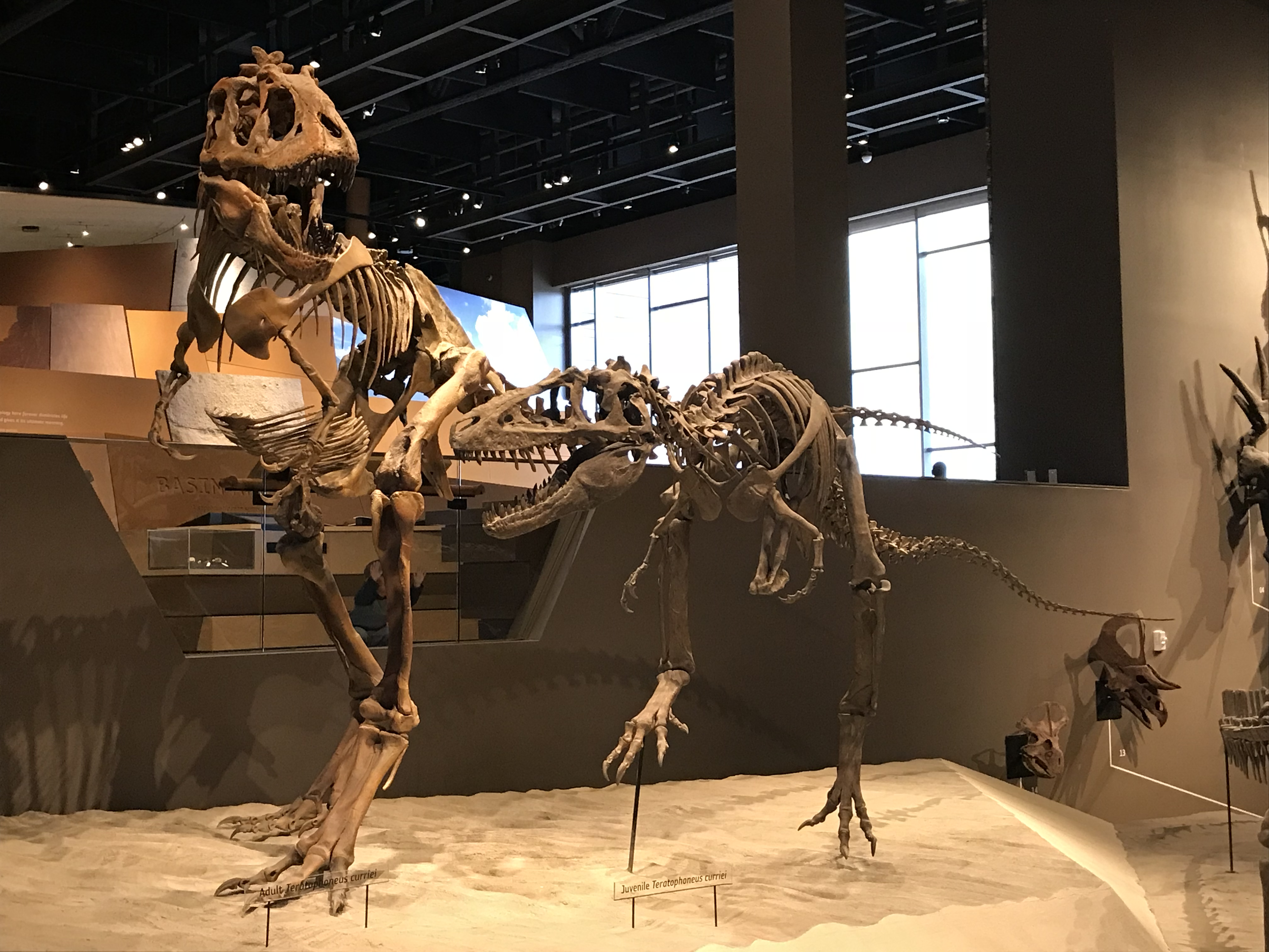 Teratophoneus curriei adult and juvenile, Natural History Museum of Utah.